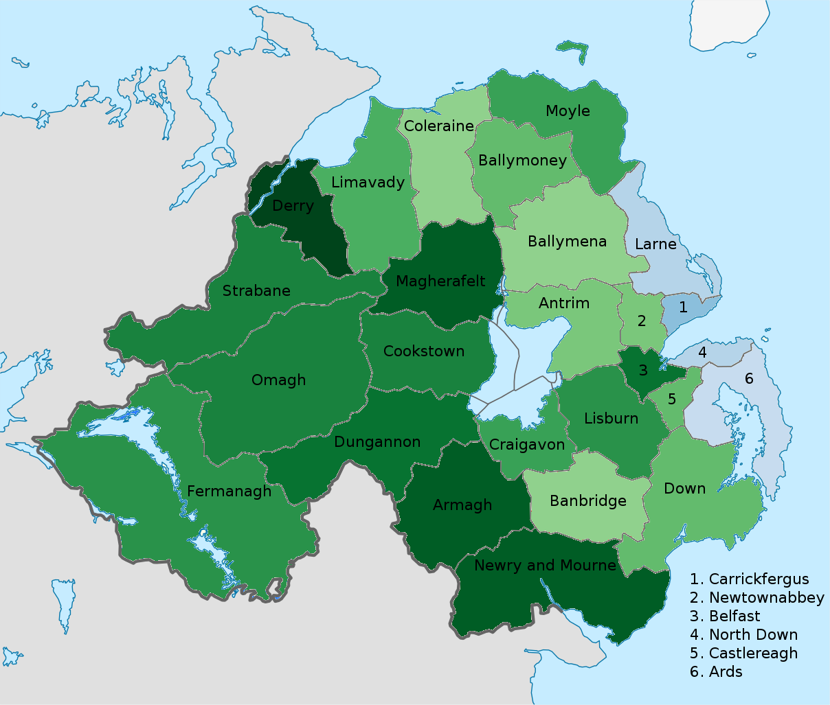 A map of Northern Ireland districts colour coded according to the difference between the percentage of Catholics stating they were British and the percentage of Catholics stating they were Irish in the 2011 census. Legend: 60% to 65% more Irish than British 55% to 60% more Irish than British 50% to 55% more Irish than British 45% to 50% more Irish than British 40% to 45% more Irish than British 35% to 45% more Irish than British 30% to 35% more Irish than British 25% to 30% more Irish than British 20% to 25% more Irish than British 15% to 20% more Irish than British 10% to 15% more Irish than British 5% to 10% more Irish than British 0% to 5% more Irish than British 0% to 5% more British than Irish 5% to 10% more British than Irish 10% to 15% more British than Irish 15% to 20% more British than Irish 20% to 25% more British than Irish 25% to 30% more British than Irish 30% to 35% more British than Irish 35% to 40% more British than Irish 40% to 45% more British than Irish 45% to 50% more British than Irish 50% to 55% more British than Irish 55% to 60% more British than Irish 60% to 65% more British than Irish